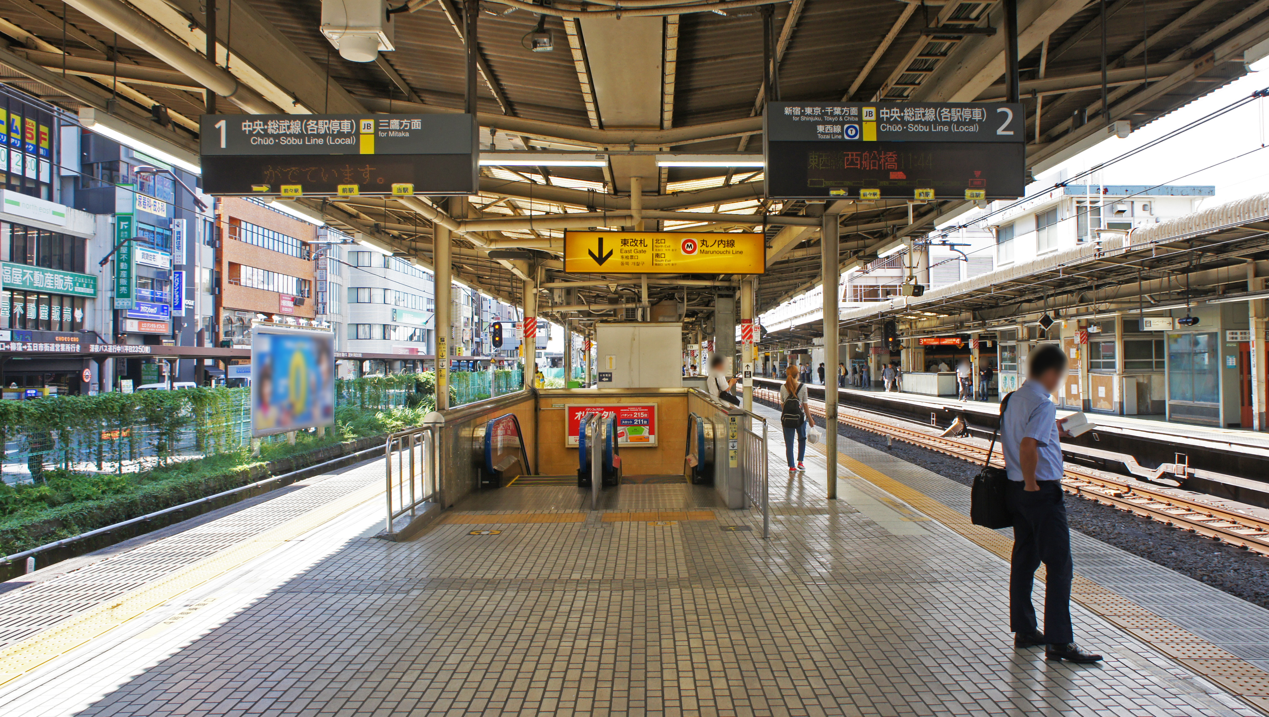 Platform 1・2 (Chuo-Sobu Line) of JR Chuo-Main-Line Ogikubo Station